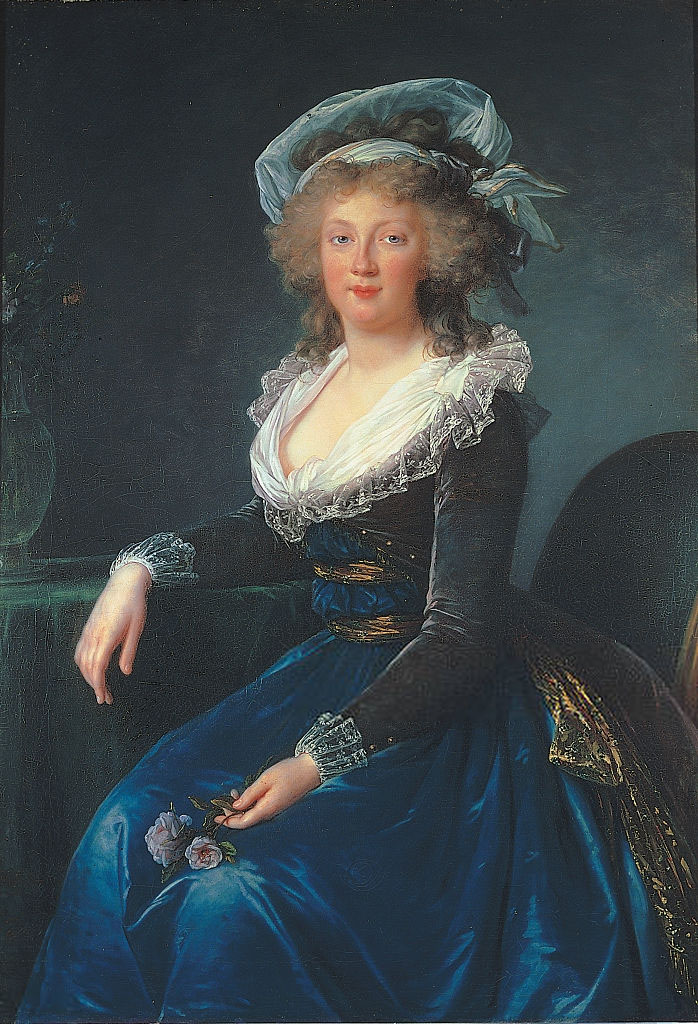 Portrait of Maria Teresa of Naples and Sicily